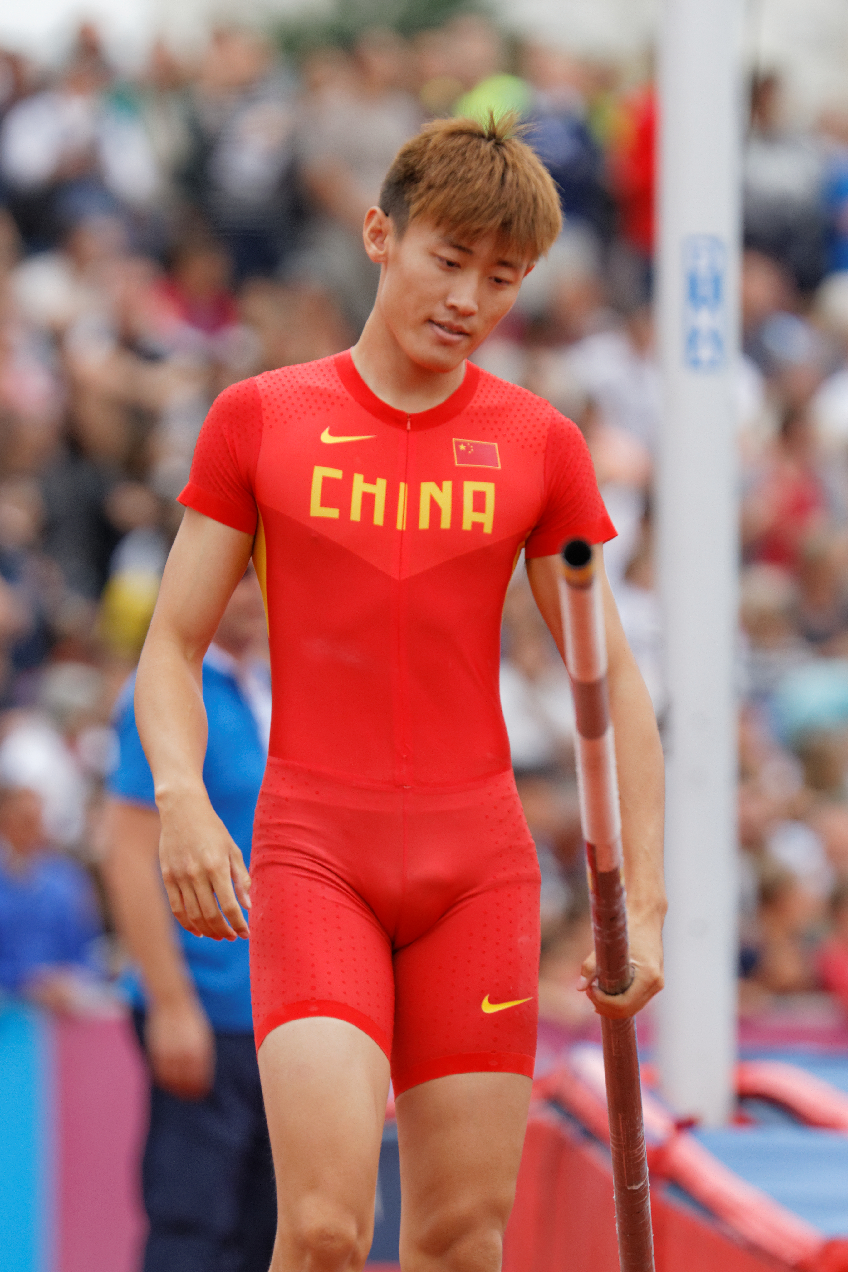 DécaNation 2014